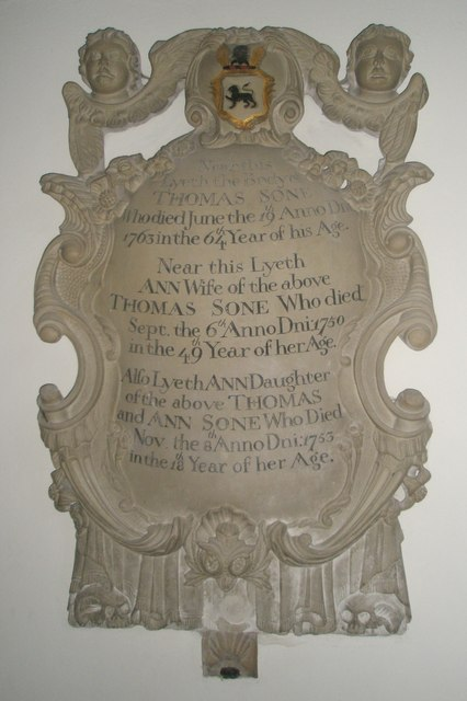 Memorial on the south wall of St Thomas à Becket, Warblington (1)